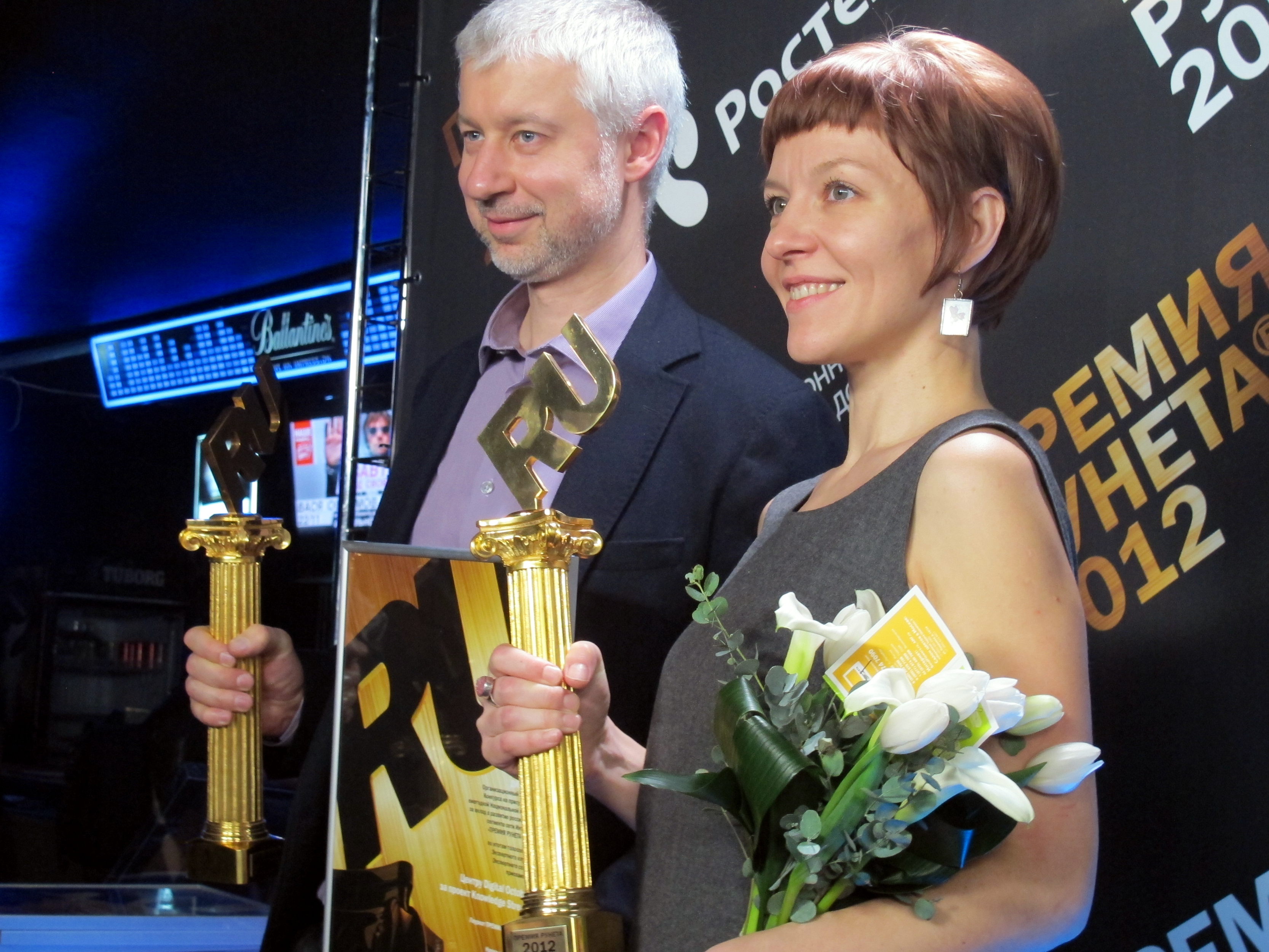 Runet Prize 2012 at the Arena Club in Moscow.